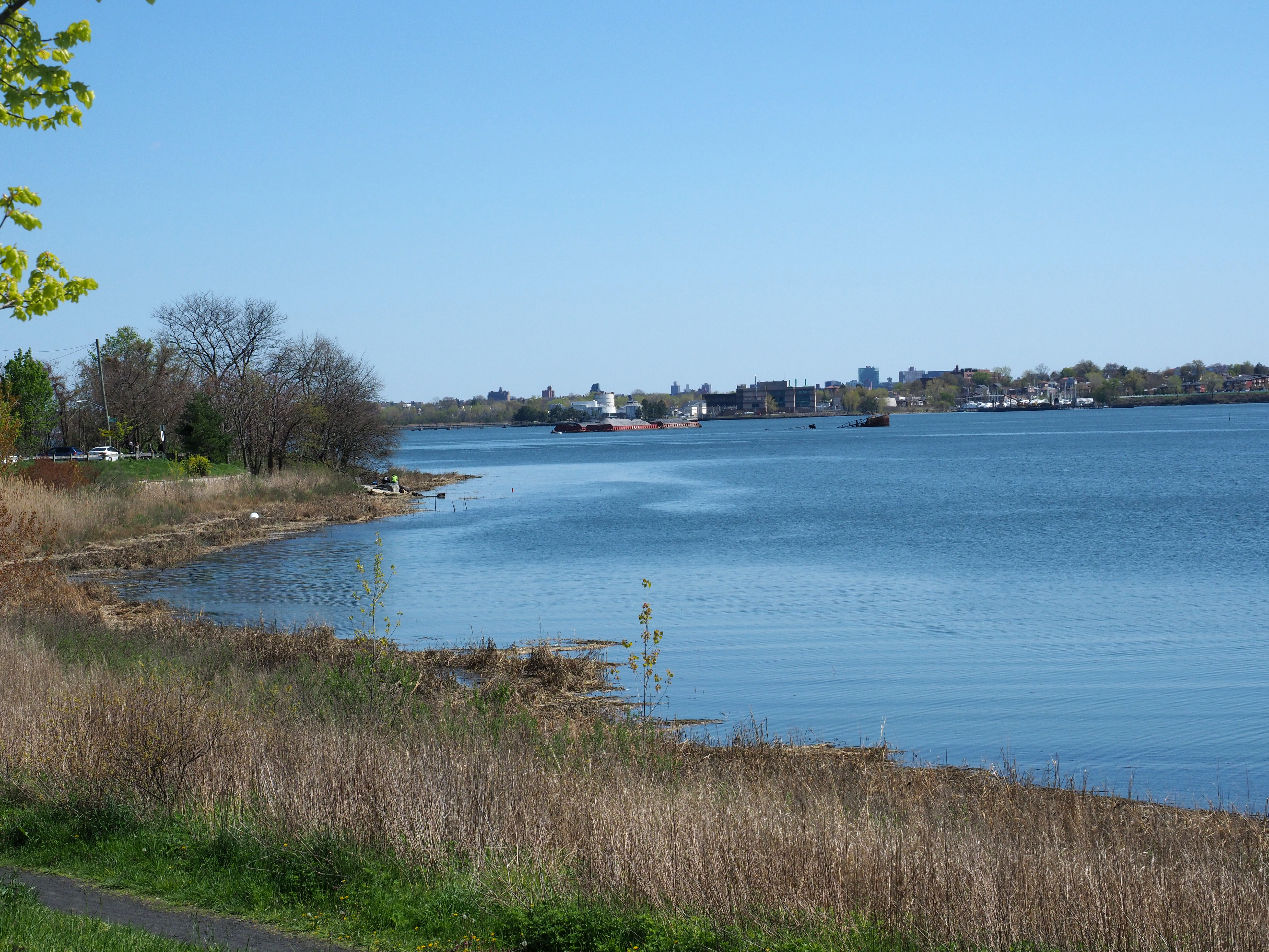 Westchester Creek, from Clason Point Park, Bronx, NY, United States